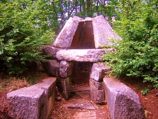 Mishkova niva Strandzha BG (2)